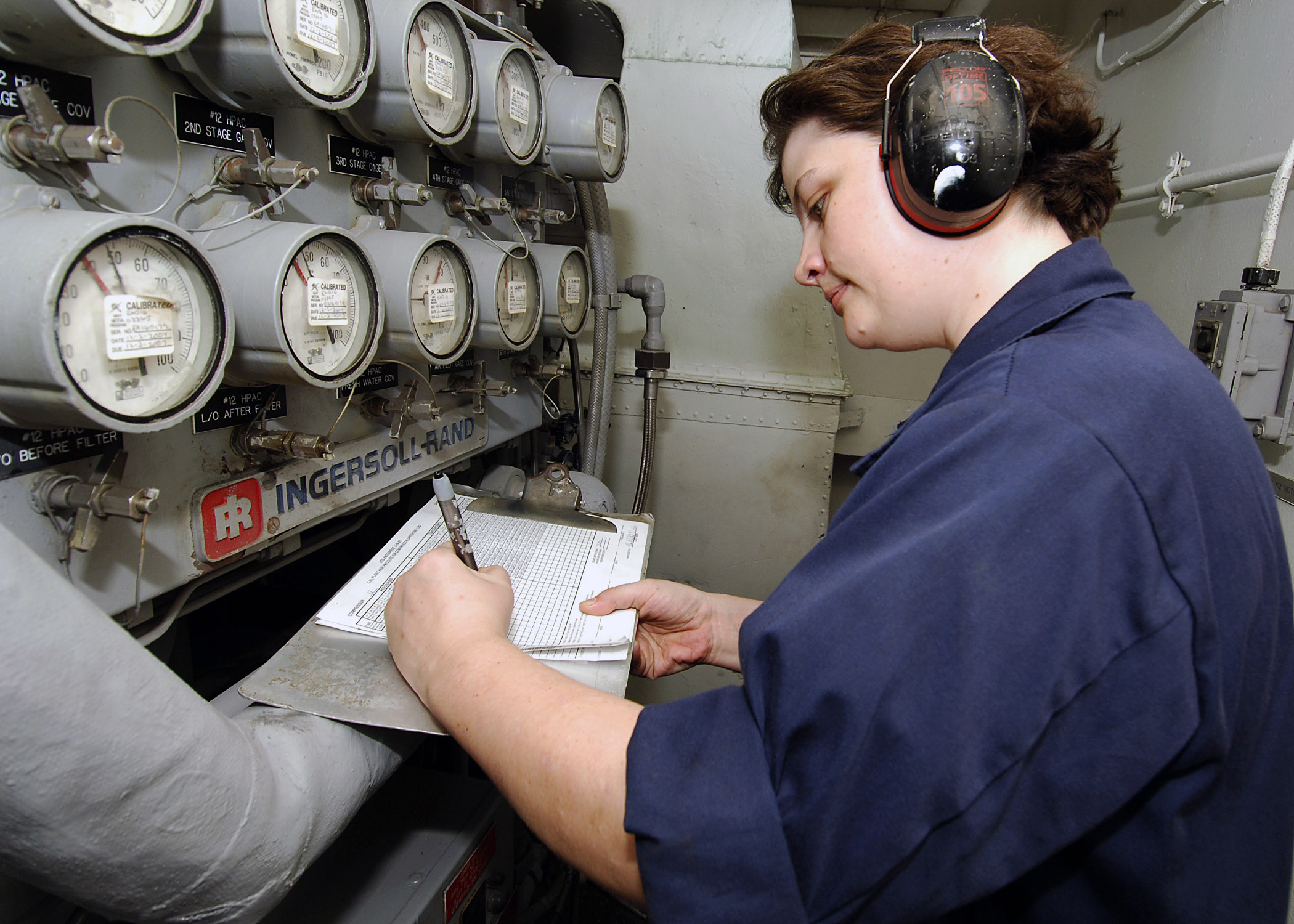 PERSIAN GULF (Nov. 6, 2007) – Machinist's Mate 1st Class Karin Thomas takes high-pressure air compressor readings inside the O2N2 lab aboard nuclear-powered aircraft carrier USS Enterprise (CVN 65). Enterprise and embarked Carrier Air Wing (CVW) 1 are underway on a scheduled deployment in support of maritime operations. U.S. Navy photo by Mass Communication Specialist Seaman Kiona M. Mckissack (RELEASED)